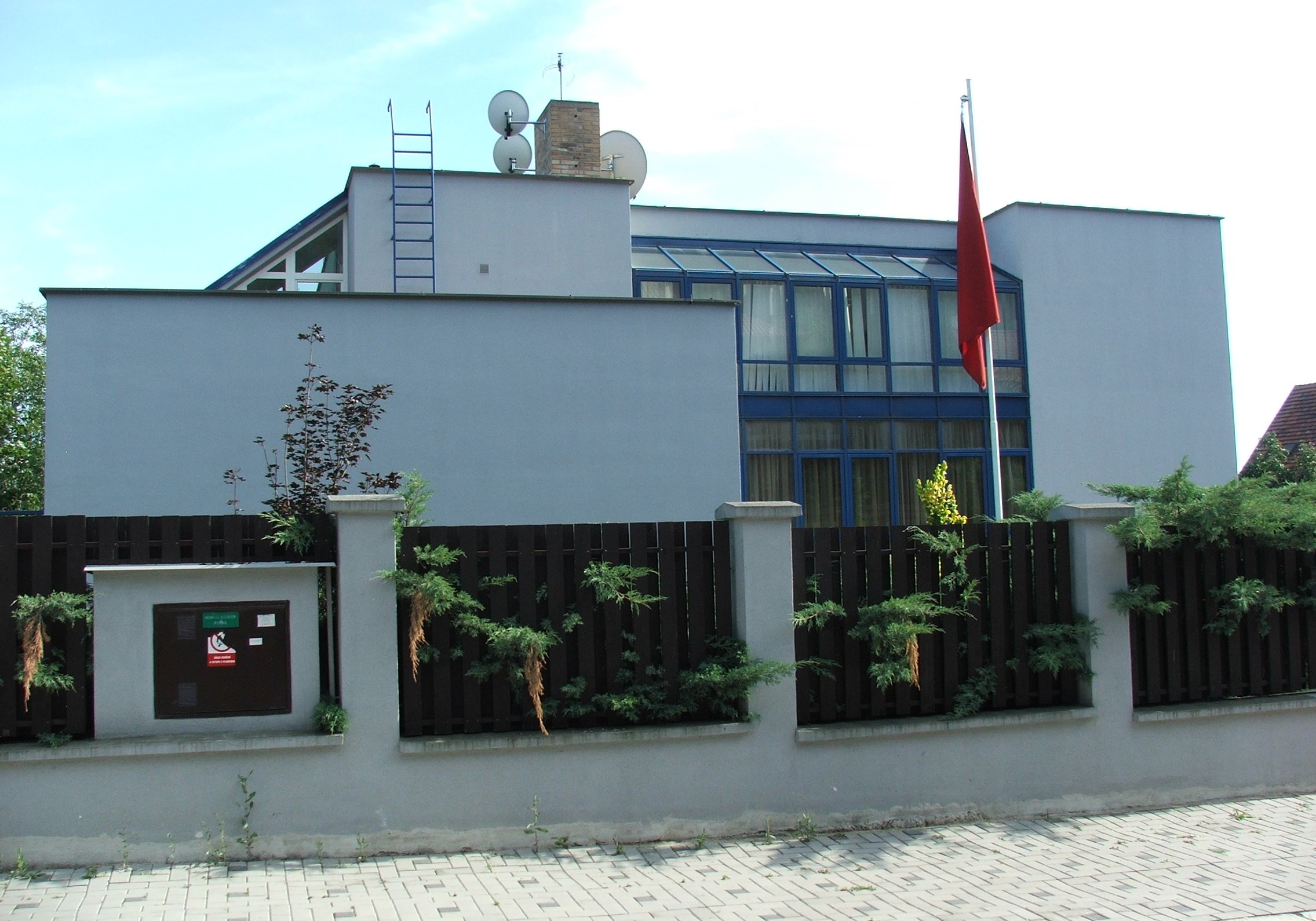 Embassy of Tunisia in Prague Troja, Czechia.